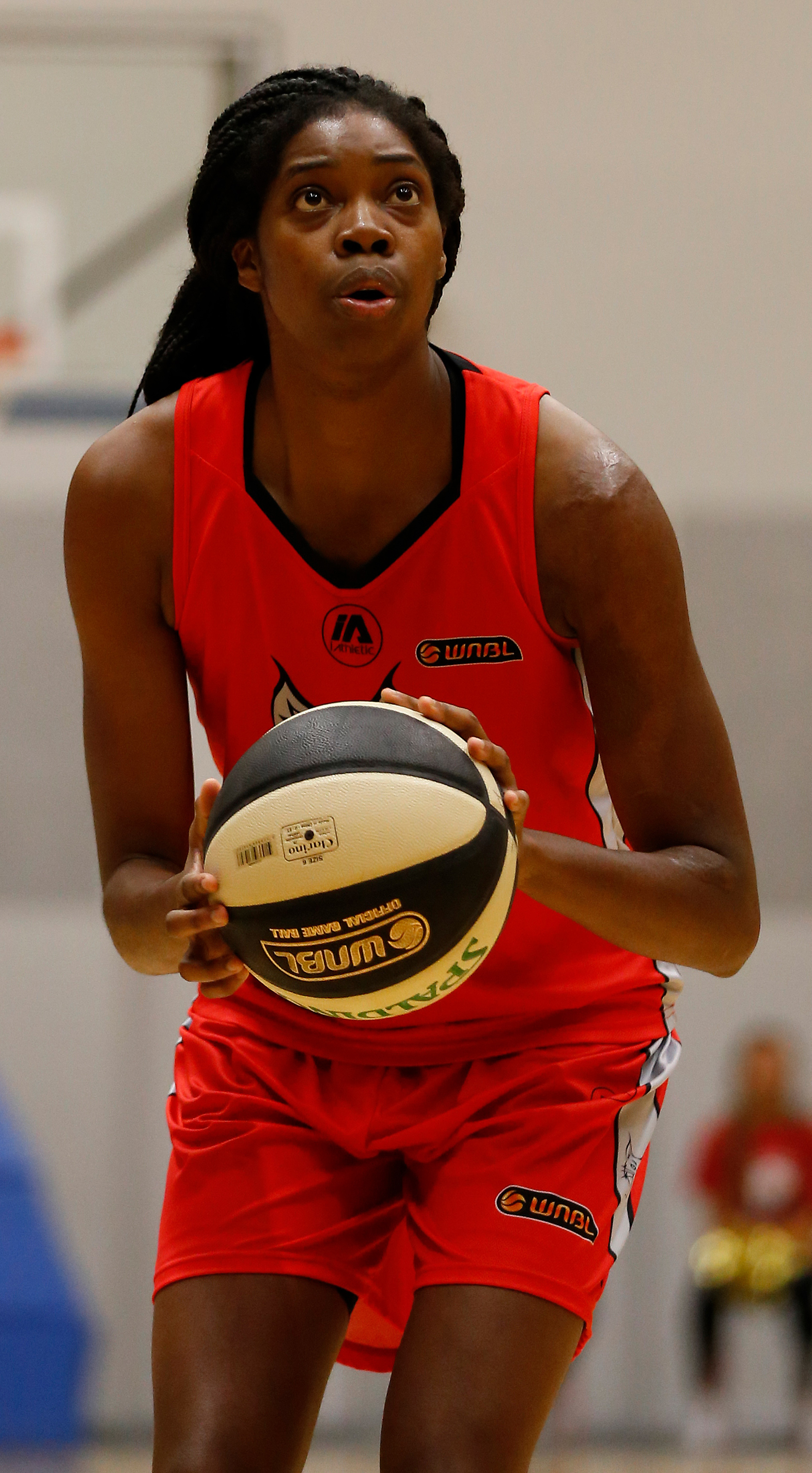 Amanda Dowe in action for the Perth Lynx in November 2017.